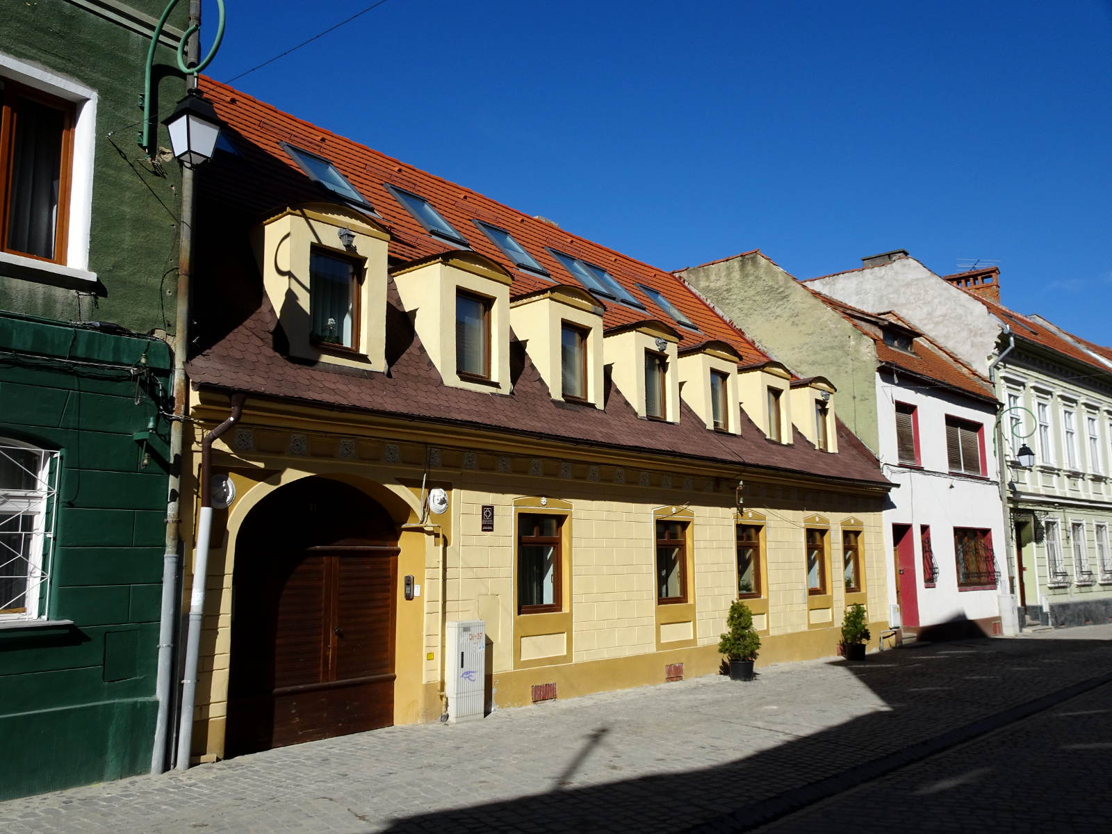 House on Postăvarului street in Brașov; house number 37